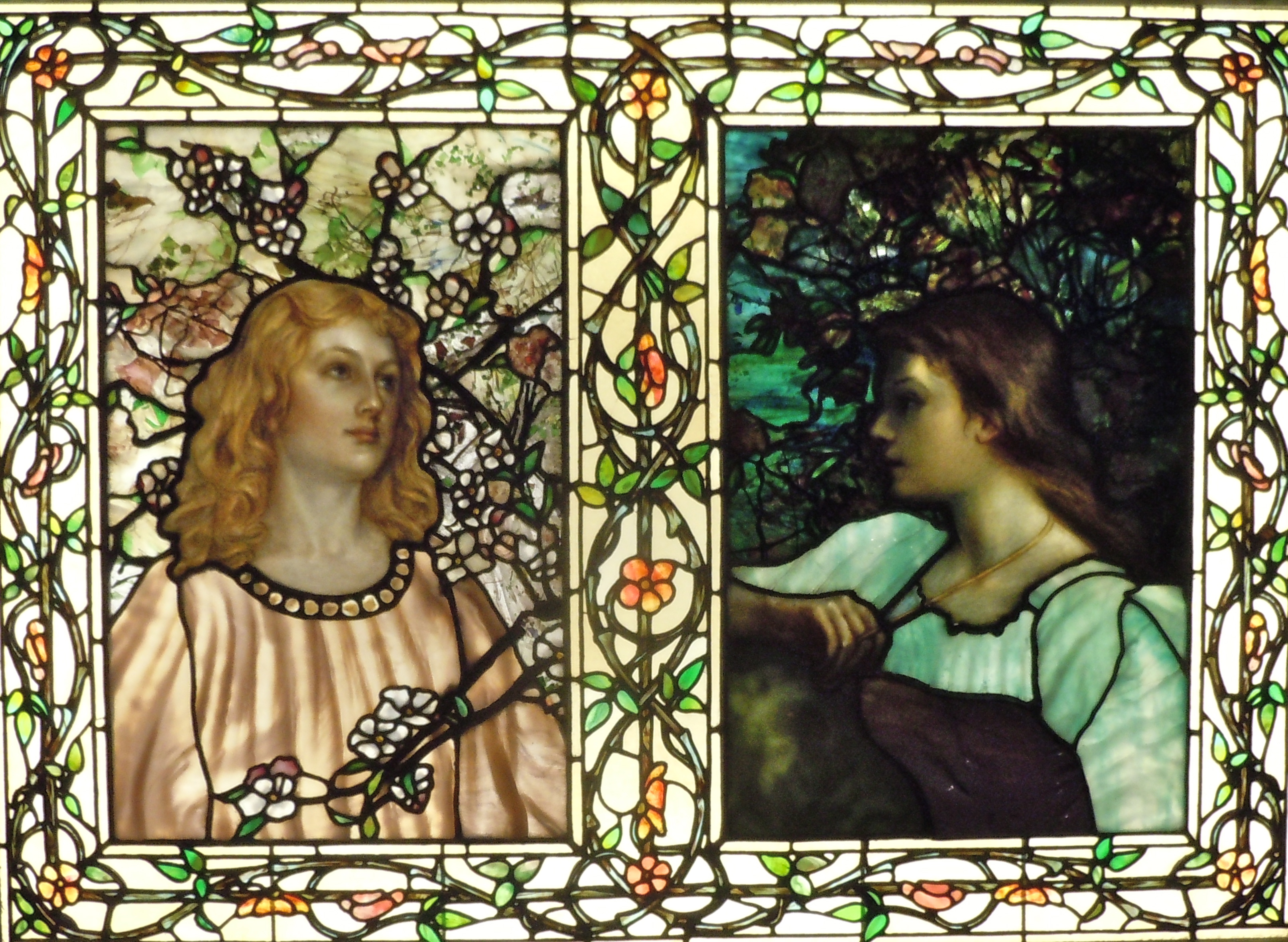 Delaware Art Museum (Inventory)Native nameDelaware Art MuseumLocationWilmingtonCoordinates39° 45′ 54″ N, 75° 33′ 54″ W Established1912Web page control : Q1183941 VIAF: 141884722 ISNI: 0000 0004 0475 4627 SUDOC: 091566312 BNF: 16740302j Stained glass "Spring" and "Autumn", designed by Lydia Field Emmet, c. 1892. Produced by Tiffany Glass Works for Samuel Bancroft, Jr. for his home in Wilmington, "Rockford" Architect for the renovations of the house was Frank Miles Day.